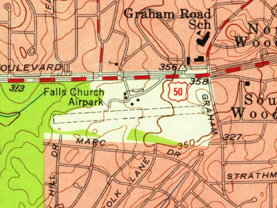 Topographic map showing Falls Church Airpark, 1955